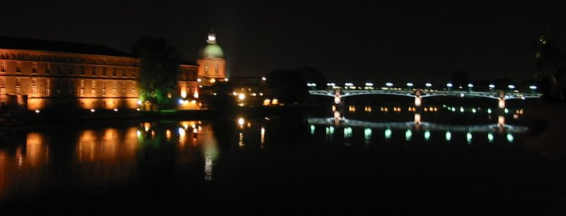 Description: Saint Pierre bridge of Toulouse. Source: Camille Harang